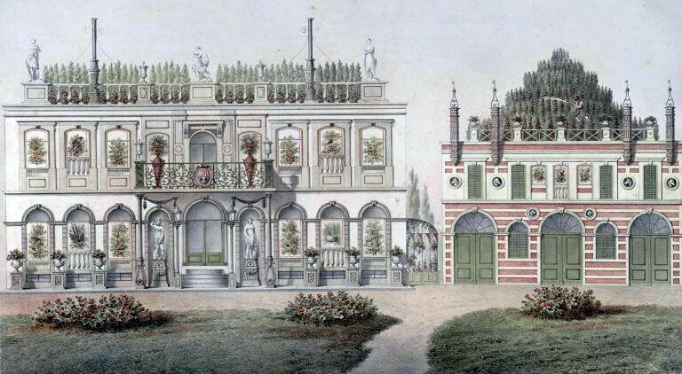 The north façade extension of Castle Vaeshartelt near Maastricht, Netherlands. The extravagant extension (with roof gardens) was short-lived. The print was made by Th. Müller and printed by Lemercier in Paris for an album titled Album dedié a mes amis et mes enfants that Petrus Regout - owner of Vaeshartelt - had put together around 1860 for family and friends. It mainly contained prints of his real estate and some portraits. Throughout the 1860s various versions were printed.